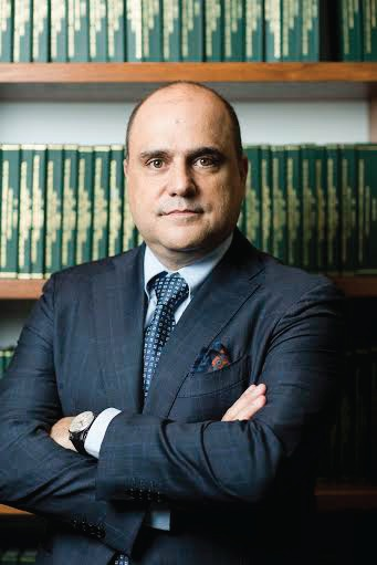 Dr. Leonardo Nemer C. Brant